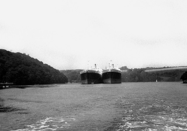 Ships at anchor